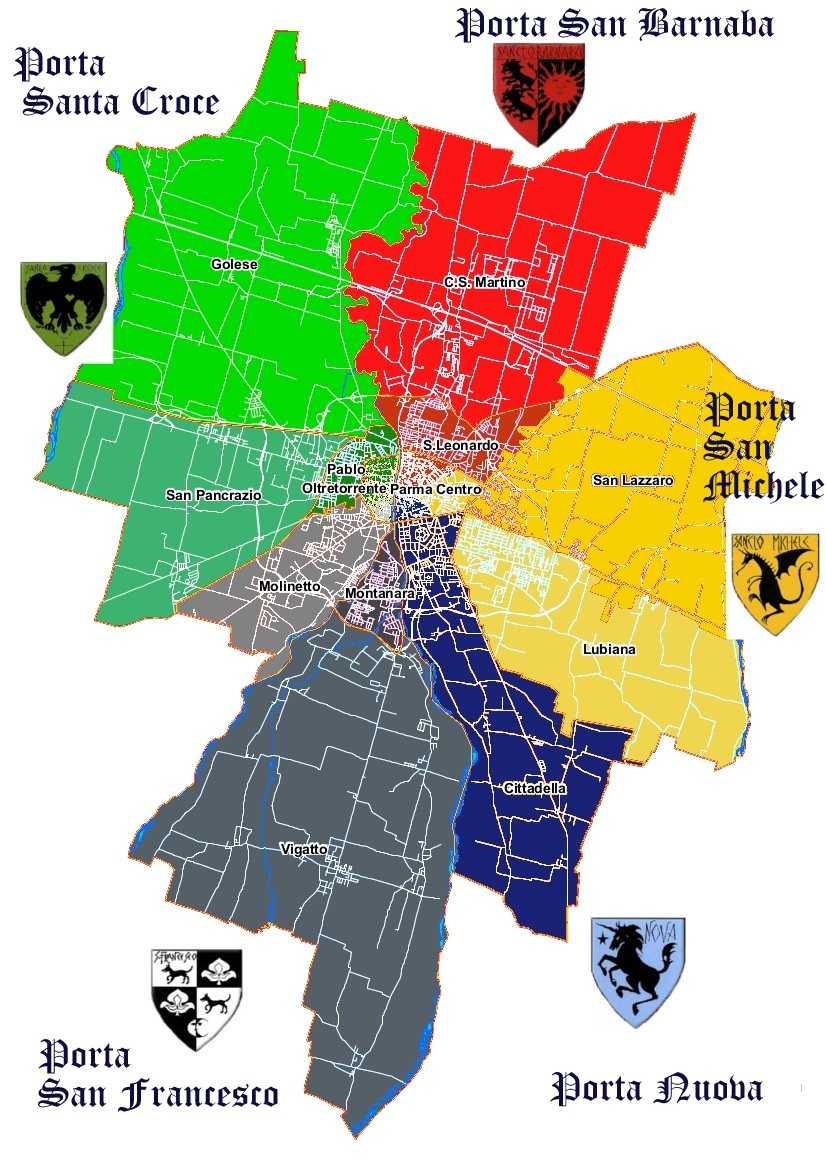 Division in quarters of the city of Parma for the Palio di Parma